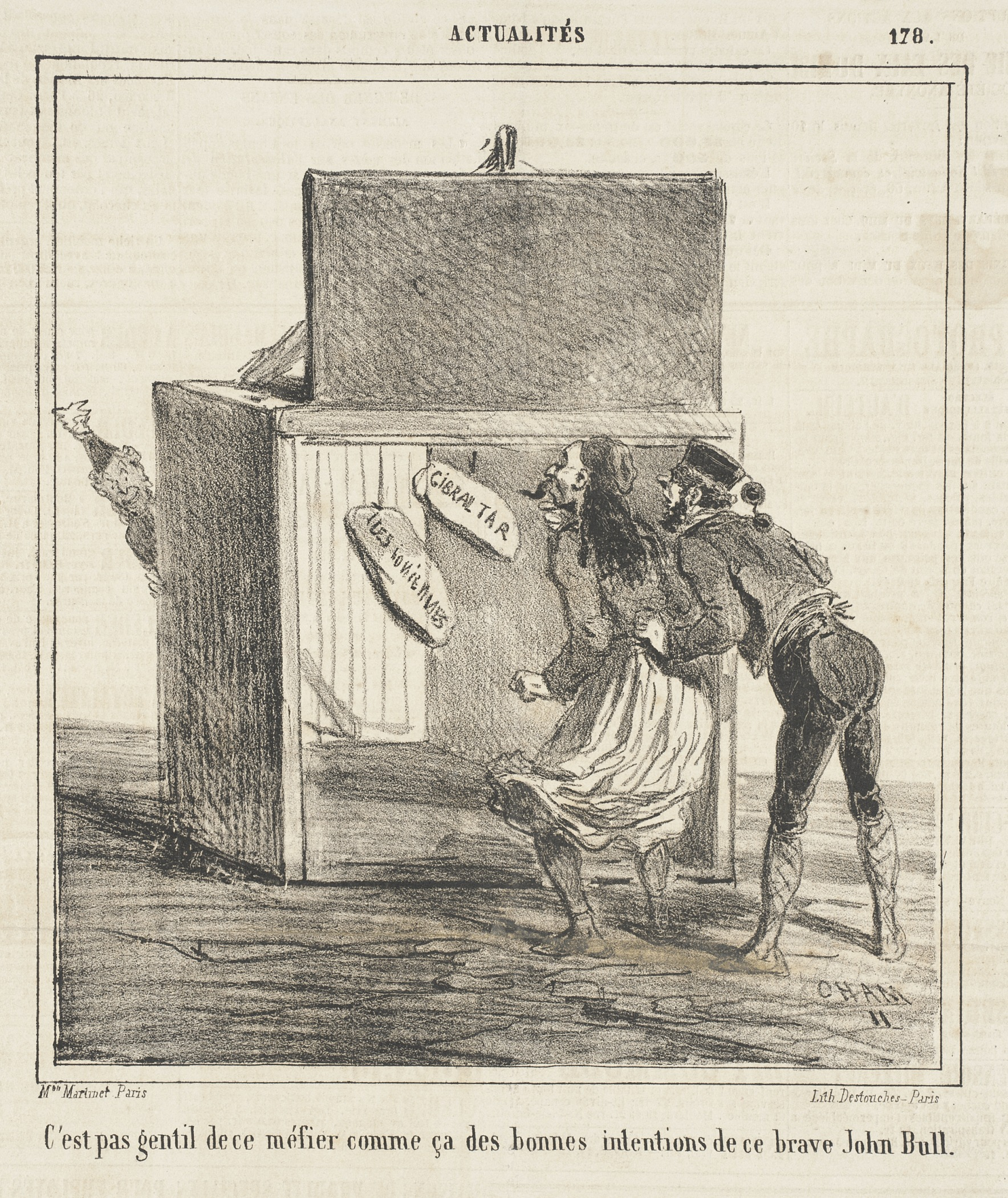 France, 1862 Series: Actualités Descriptive: Advertisement of 1862, Ionian Islands Prints; lithographs Lithograph Gift of George Longstreet (M.76.132.433) Prints and Drawings